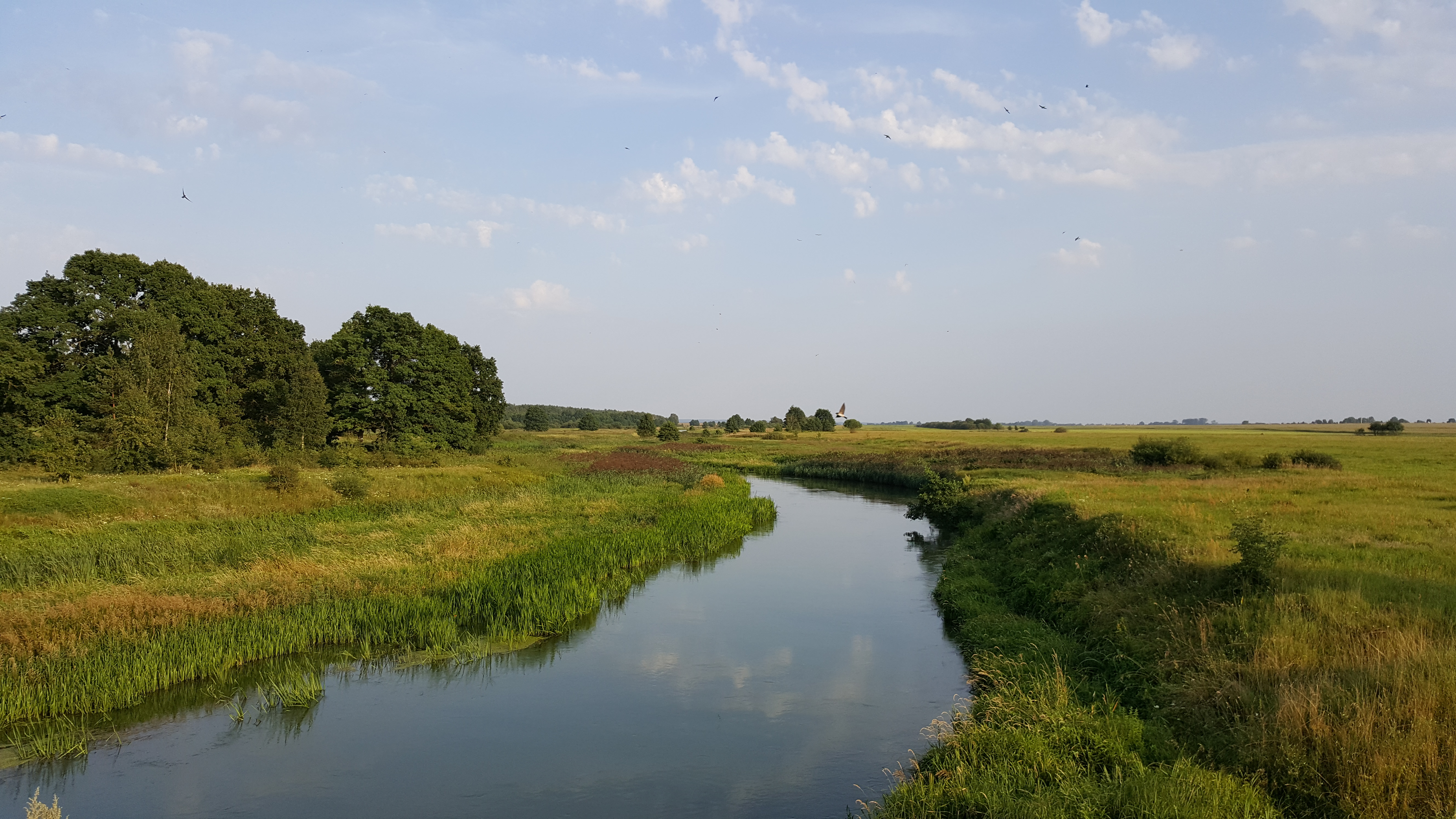 The plain of the Zelvyanka River about 15 km southeast of the city of Masty Canalized river section